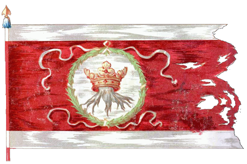 Flag of Braşov, 1600